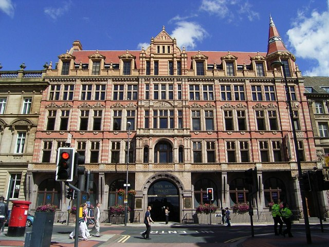 Prudential Assurance Building, Park Row, Leeds Built by Alfred Waterhouse 1890/4 in red brick and Burmantofts buff Terracotta